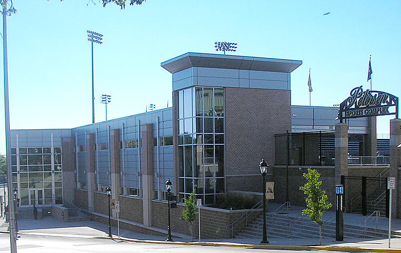 Support building of the Petersen Sports Complex at the University of Pittsburgh